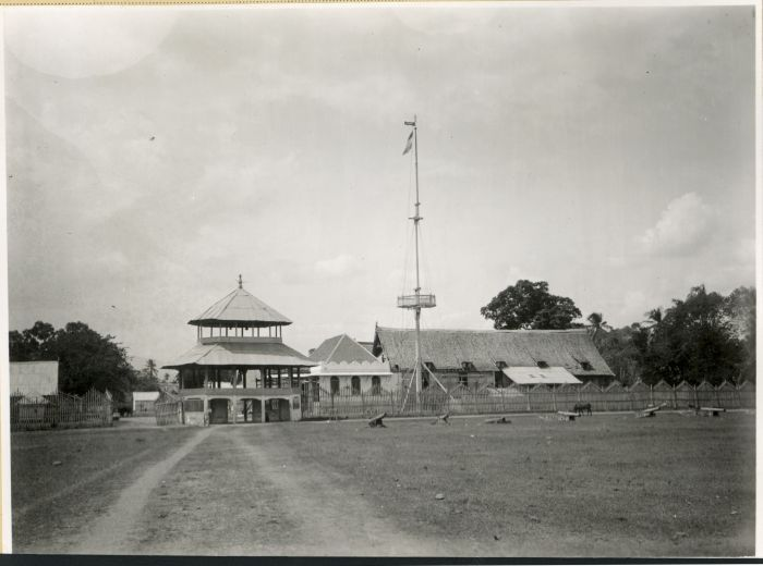 The palace of the sultan of Bima